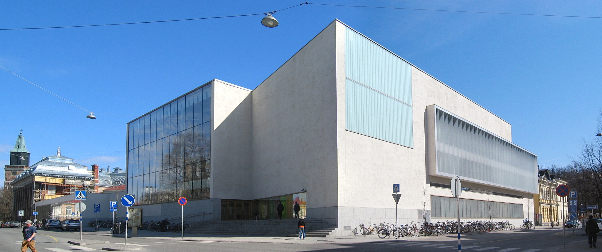 The Central Library of Turku